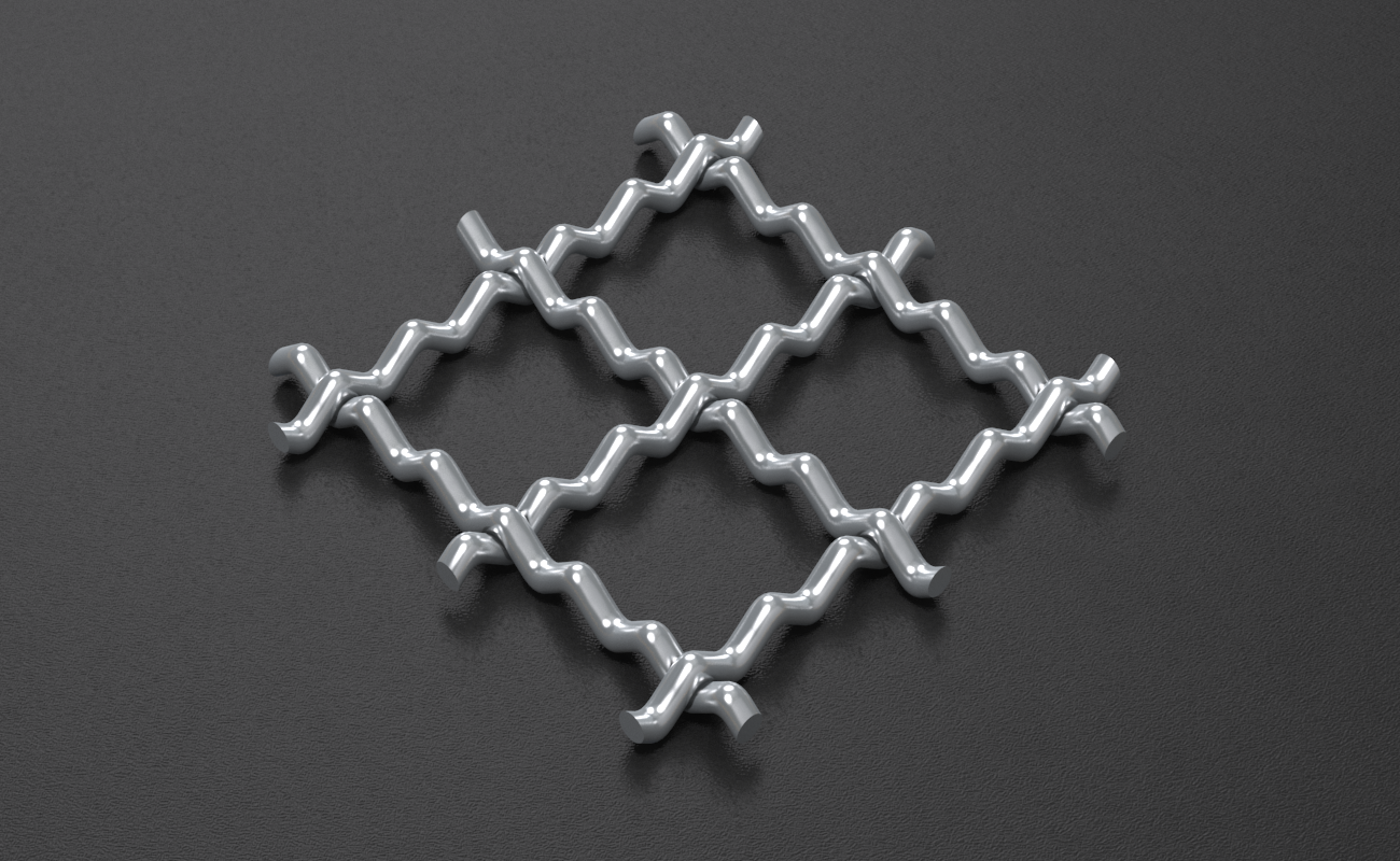 Scheme of crimped wire mesh of V type TU 1276-002-38279335-2013